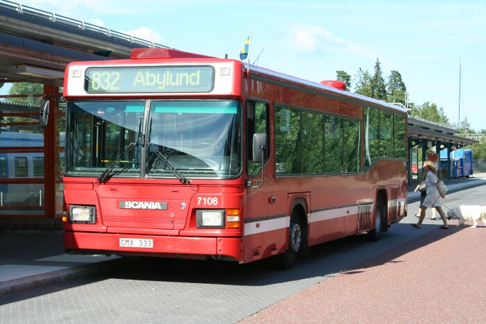 buss i västerhaninge station